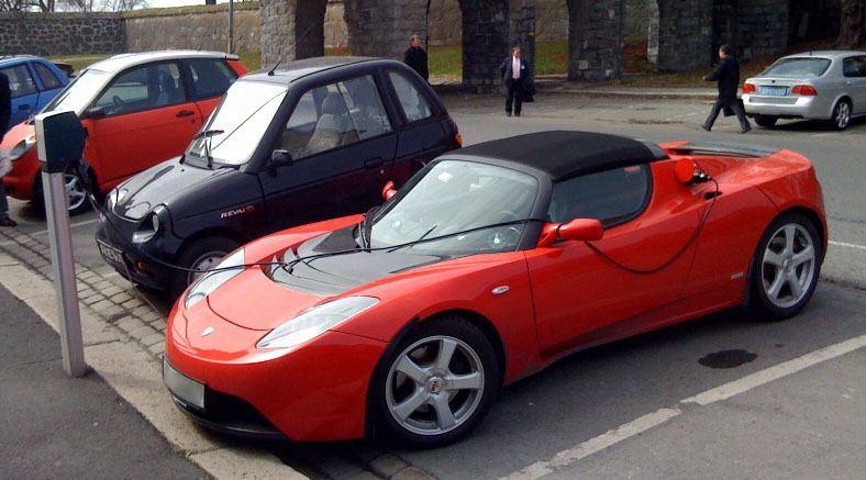 A Tesla Roadster, Reva i and Ford Th!nk electric cars parked at a free parking and charging station near Akershus fortress in Oslo, Norway